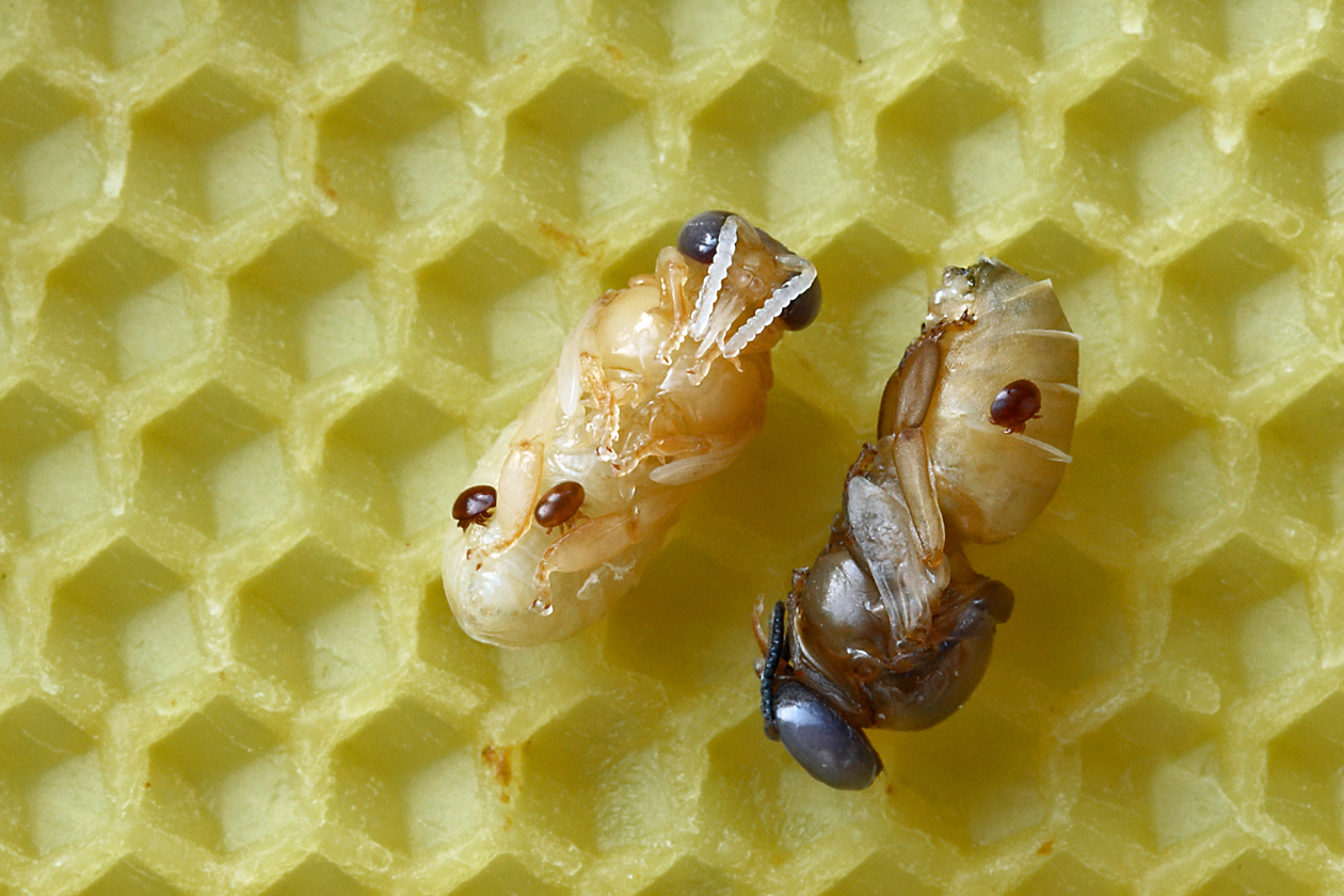 Two drone pupae of the Western honey bee with varroa mites.